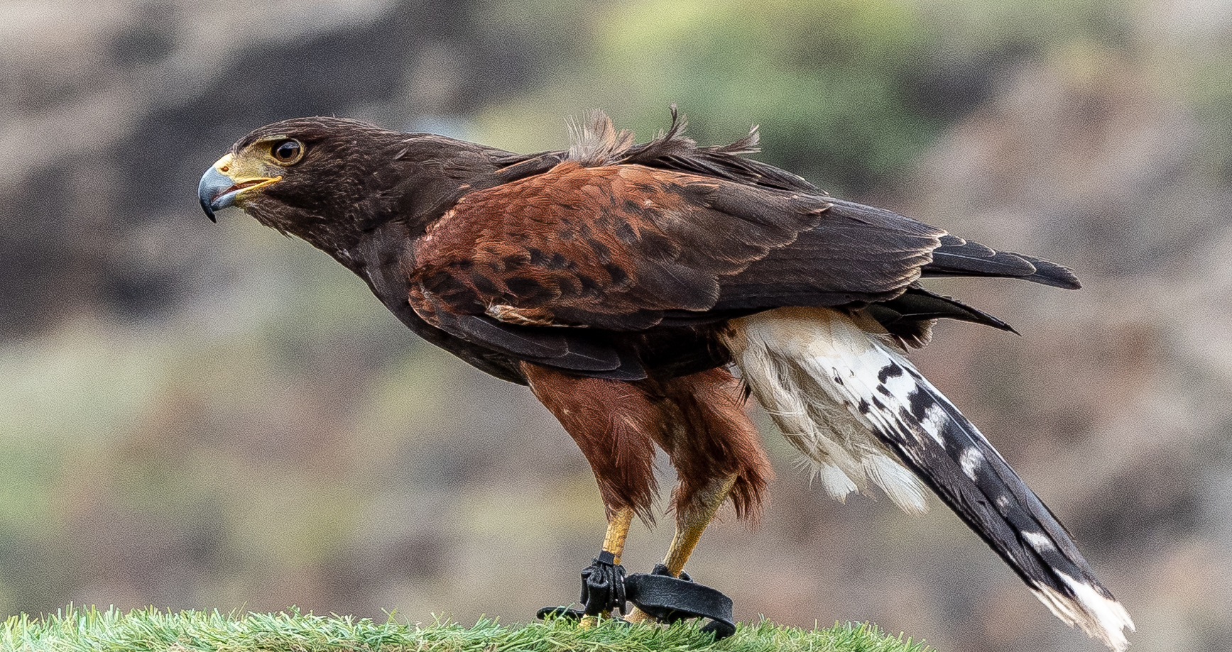 Palmitos Park, Gran Canaria, March 2019